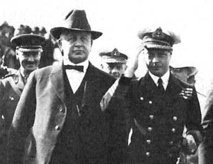 William Stephens (1859-1944), 24th Governor of California. Picture cropped from Stephens welcoming of Edward, Prince of Wales on his visit to San Diego.